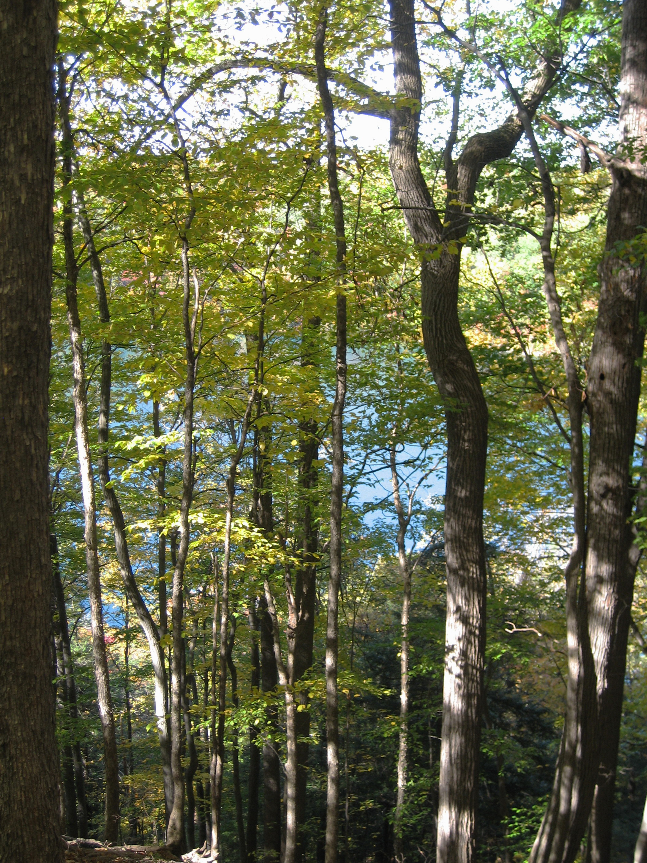 View through old growth forest from escarpment above Round Lake (Green Lakes State Park, Fayetteville, New York).